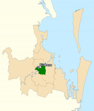 This image incorporates data that is: © Commonwealth of Australia (Australian Electoral Commission) 2009 Division of Griffith 2010